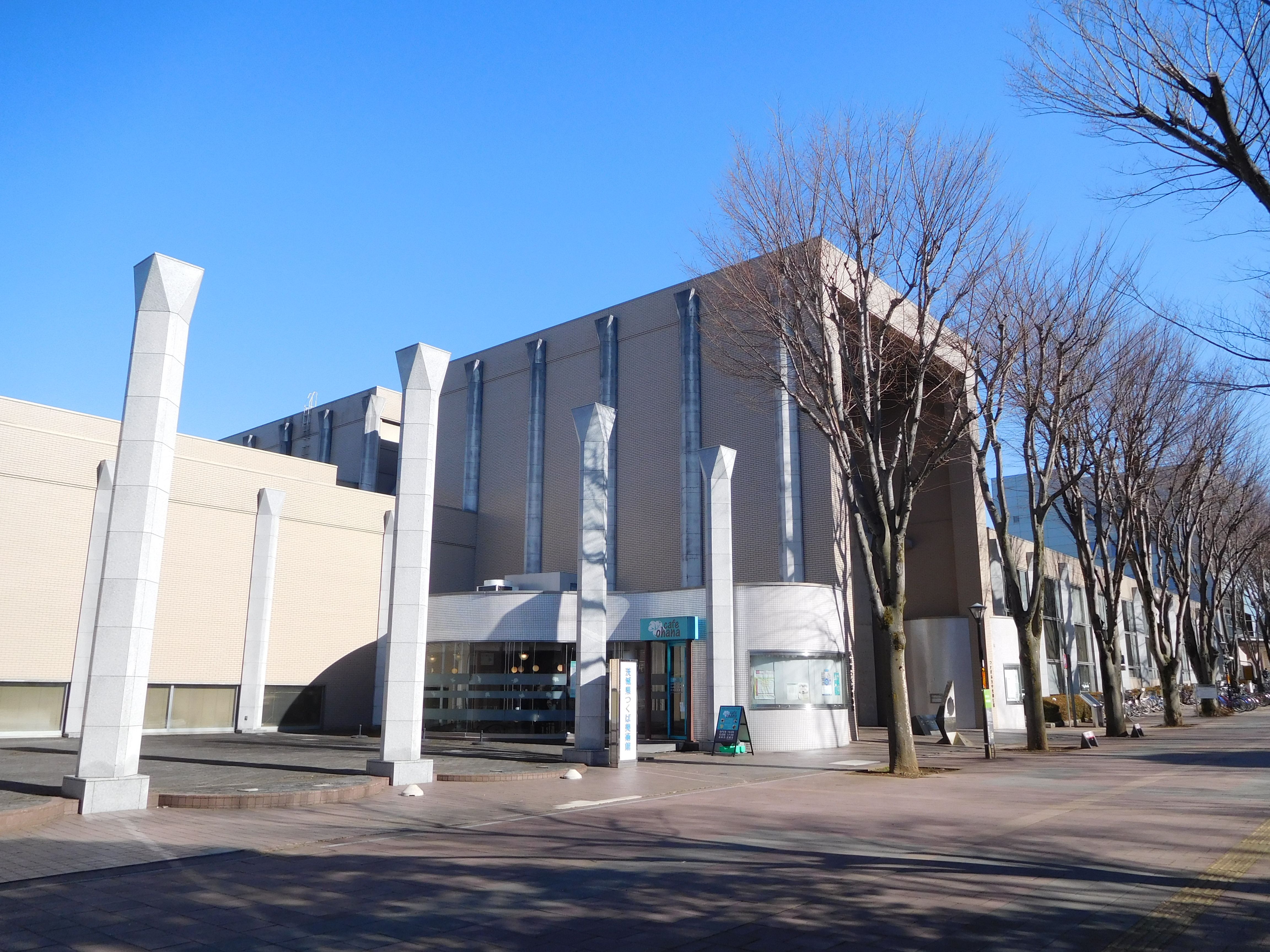 This is a photo of Tsukuba Cultural Hall ARS(Tsukuba,Japan).I took this photograph from the pedestrian deck side. It has Ibaraki prefectural Tsukuba art museum & Tsukuba public library.